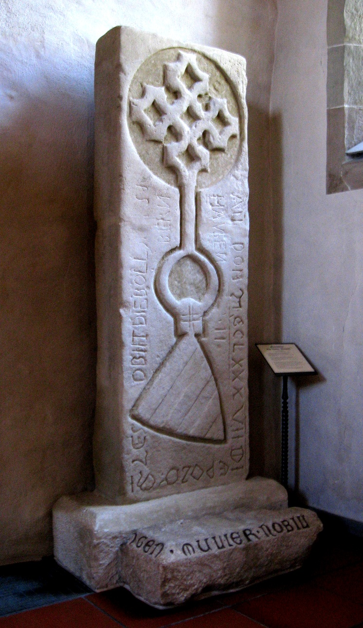 Tombstone of the founder of Aichtal-Grötzingen, Knight Diepold of Bernhausen, situated in the protestant church in Grötzingen